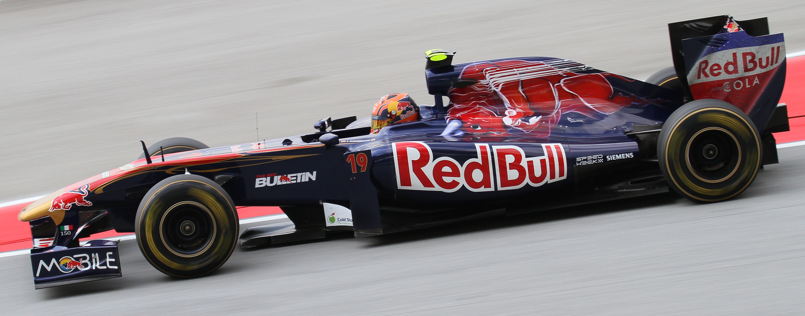 Formula One 2011 Rd.2 Malaysian GP: Jaime Alguersuari (Toro Rosso) during the second practice session on Friday.